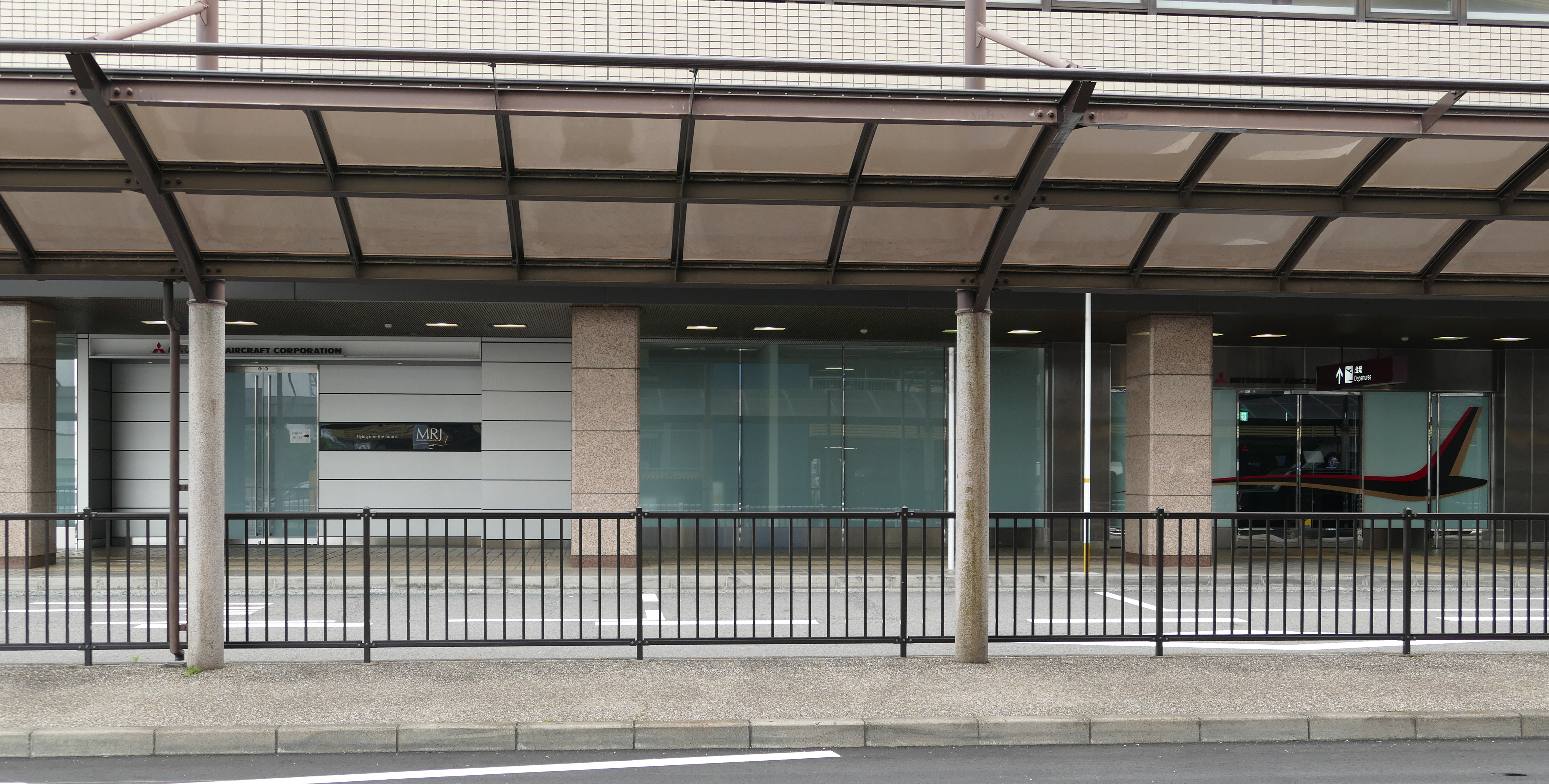 Headquarters of Mitsubishi Aircraft Corporation,Aichi prefecture,Japan